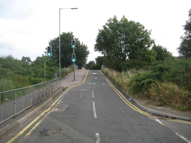 Croxley Rail Link (8): Vicarage Road looking north-east In July 2013 The Secretary of State for Transport issued a Transport and Works Act Order for the proposed Croxley Rail Link scheme, diverting the current London Underground Metropolitan Line branch to Watford from a point east of Croxley station and extending it to Watford Junction station via Watford High Street station, with the closure of the original Watford station to passenger traffic. Vicarage Road would be the site of the proposed new Watford Hospital station on the line. This is the view looking north-eastwards towards the bridge carrying the road over the original 1912-built former L&NWR's Croxley Branch, the trackbed of which the new line would use.